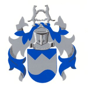 The Wegelius Crest